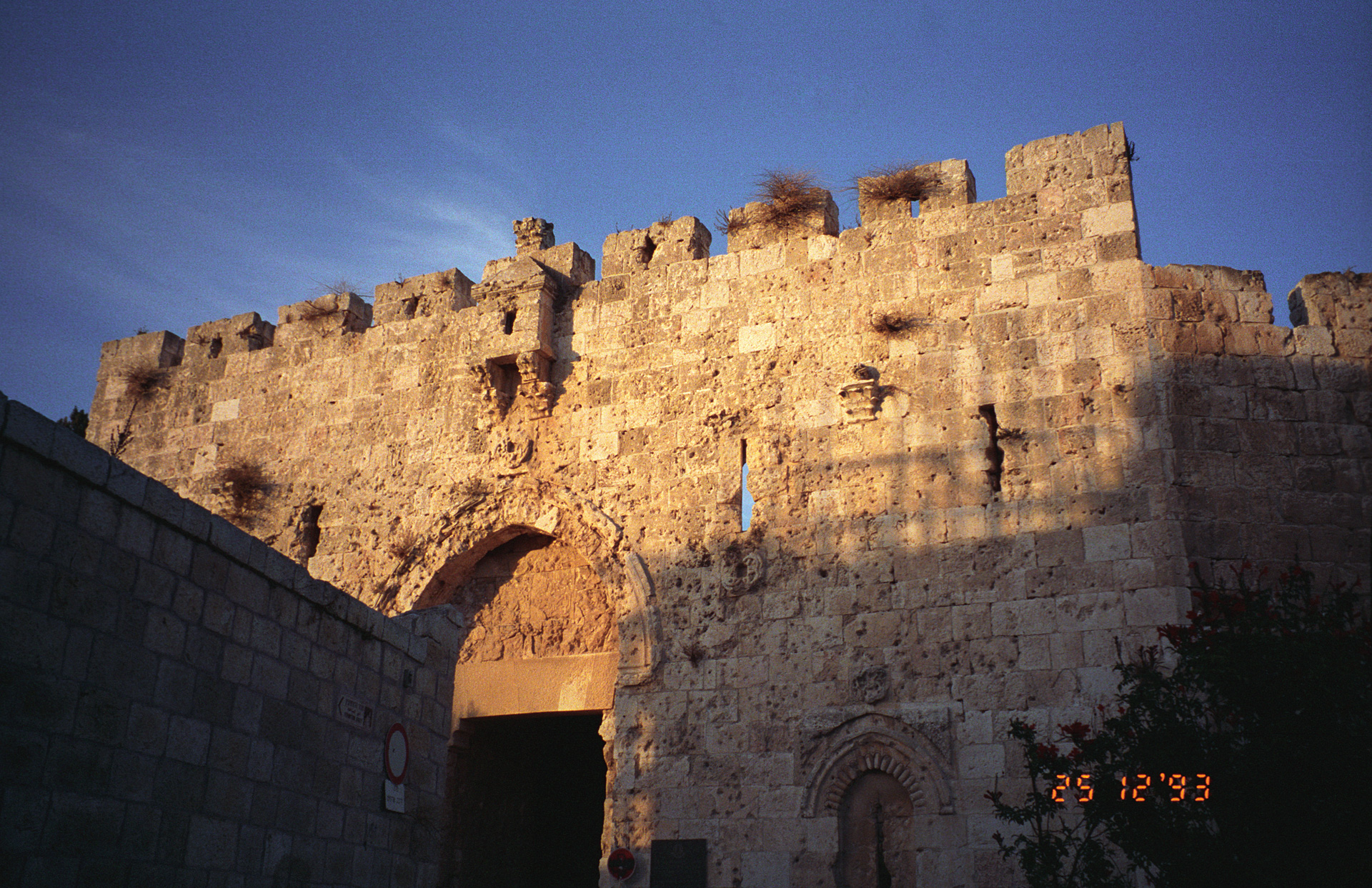 The Walls of Old City of Jerusalem, the Zion Gate